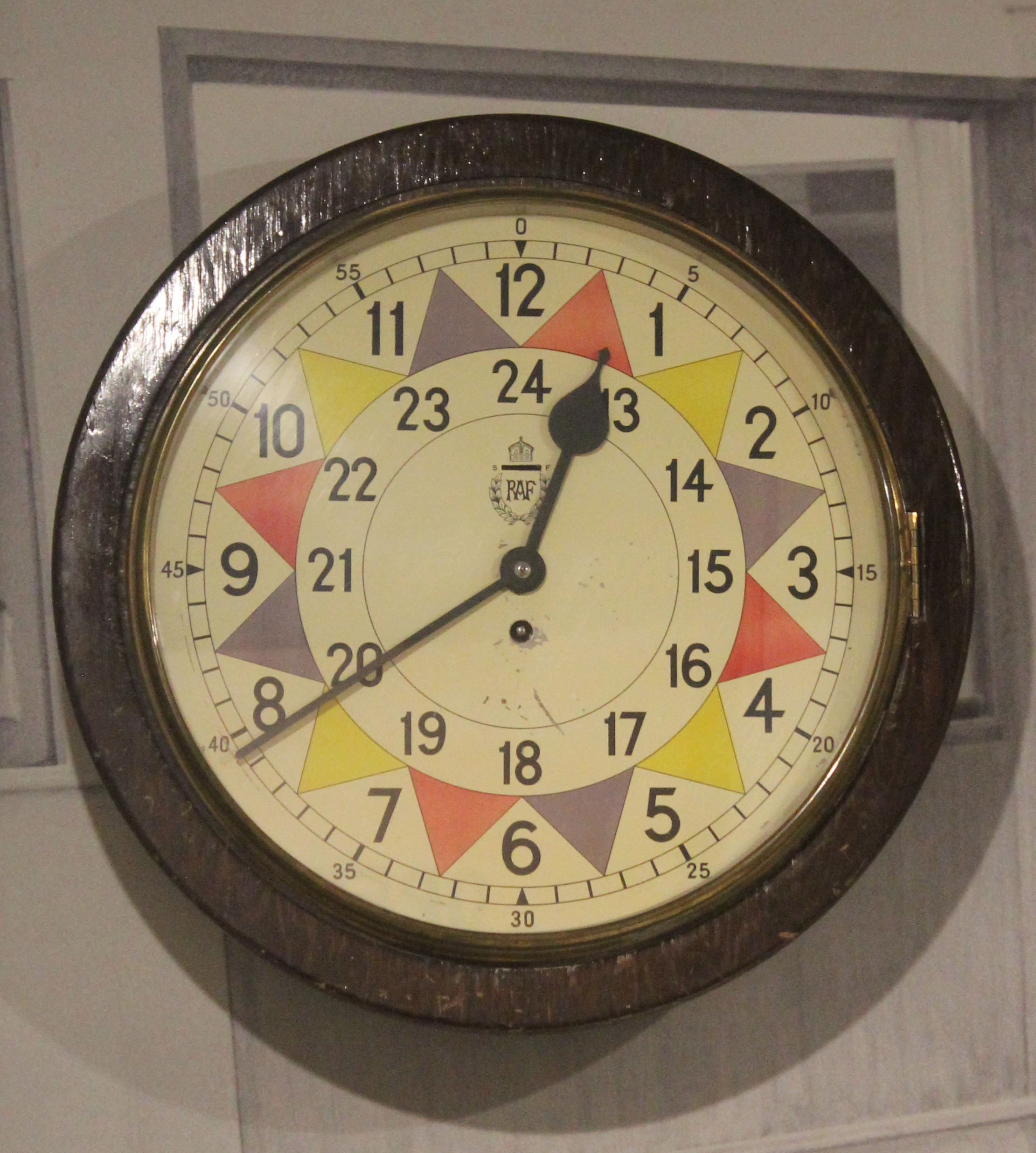 A timestamp indicator clock from the Second World War on display at the Science Museum, London. A large horizontal map was at the heart of the RAF Fighter Command control room. Enemy aircraft were tracked by placing markers on the map. These markers were colour-coded according to when they were first sighted (mainly by the Royal Observer Corps. The red, yellow and blue triangles on the clock identified the colour to be used.